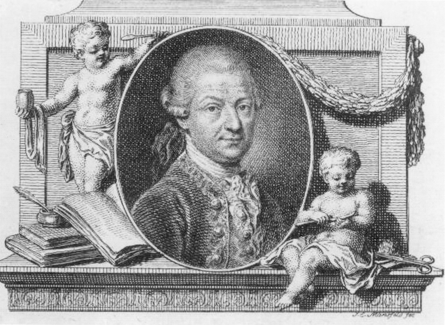 Portrait of Tobias Philipp Freiherr von Gebler (1720/2-1786) , German playwright